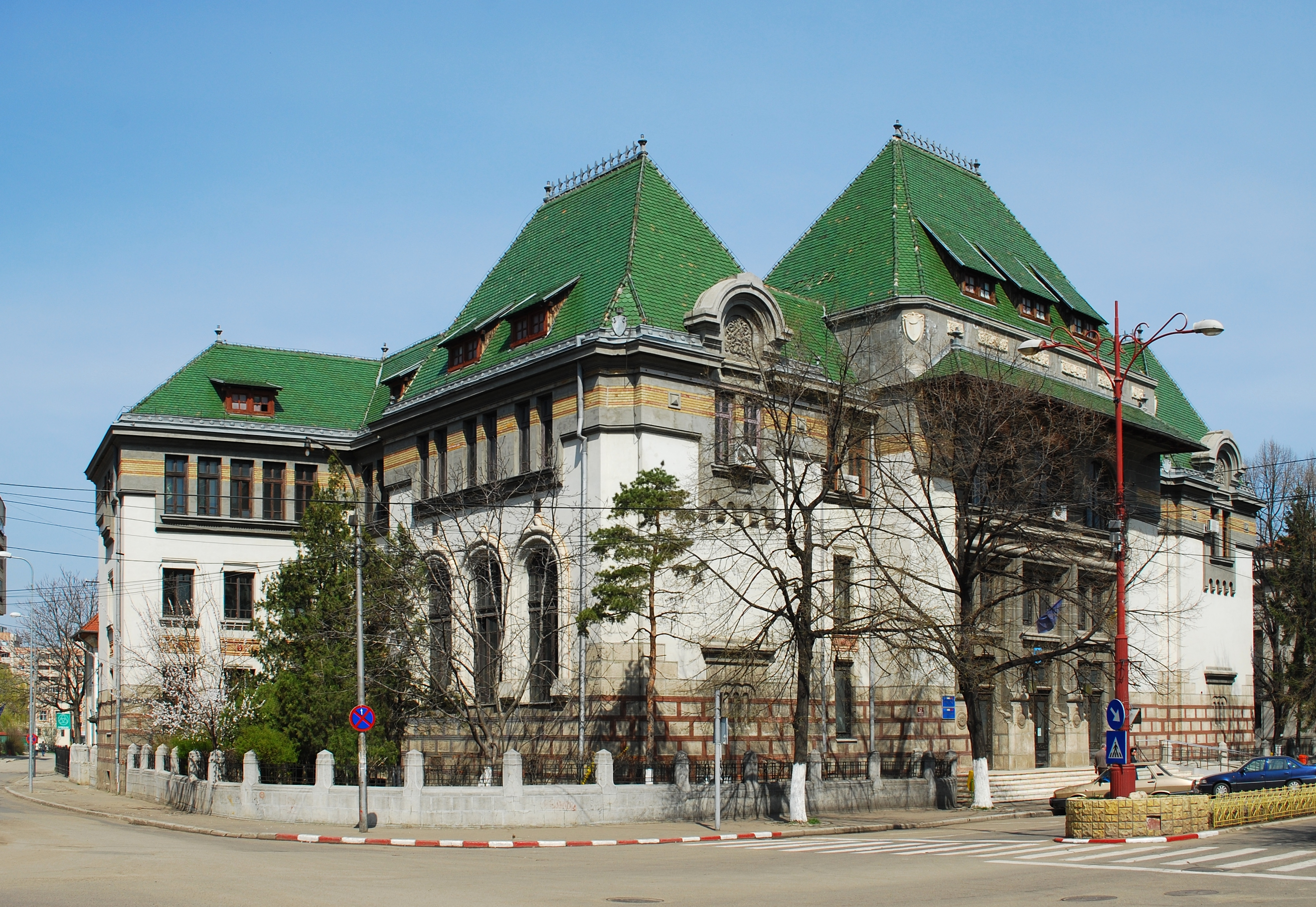 Courthouse building in Buzău, RomaniaRomână: Tribunalul din Buzău, România